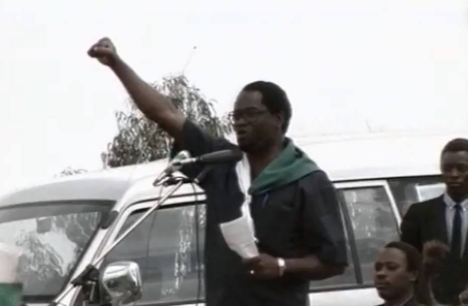 Melchior Ndadaye speaking at a FRODEBU rally following his successful election as President of Burundi